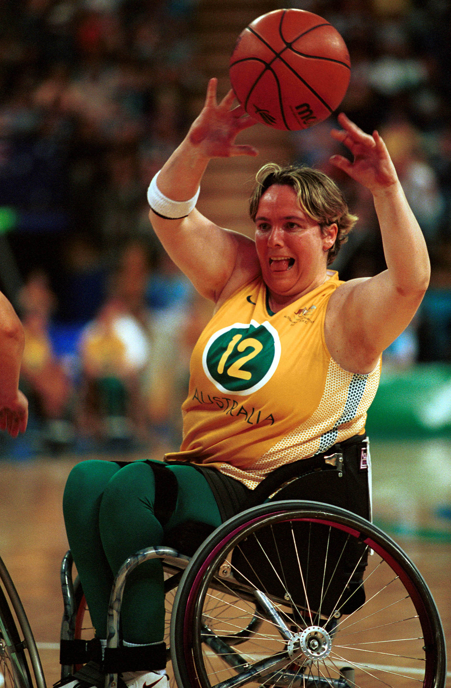 Australian wheelchair basketballer Amanda Carter with the ball during 2000 Sydney Paralympic Games match